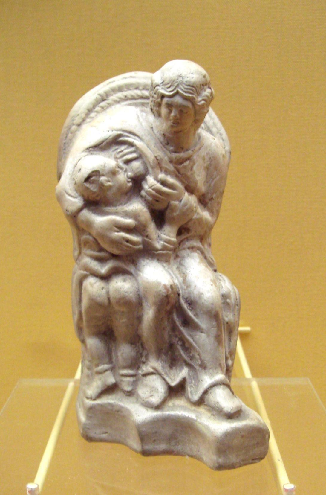 Matrona_Gaul_goddess = the french Dea Matrona, or a Matrone, or another kind of mother goddess?